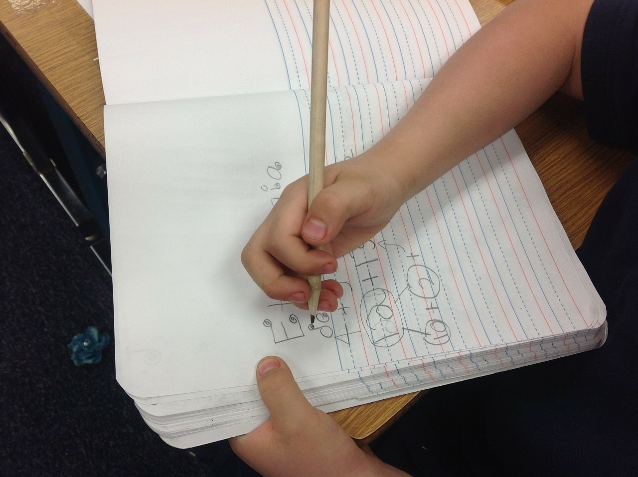 Writing-110764 1280